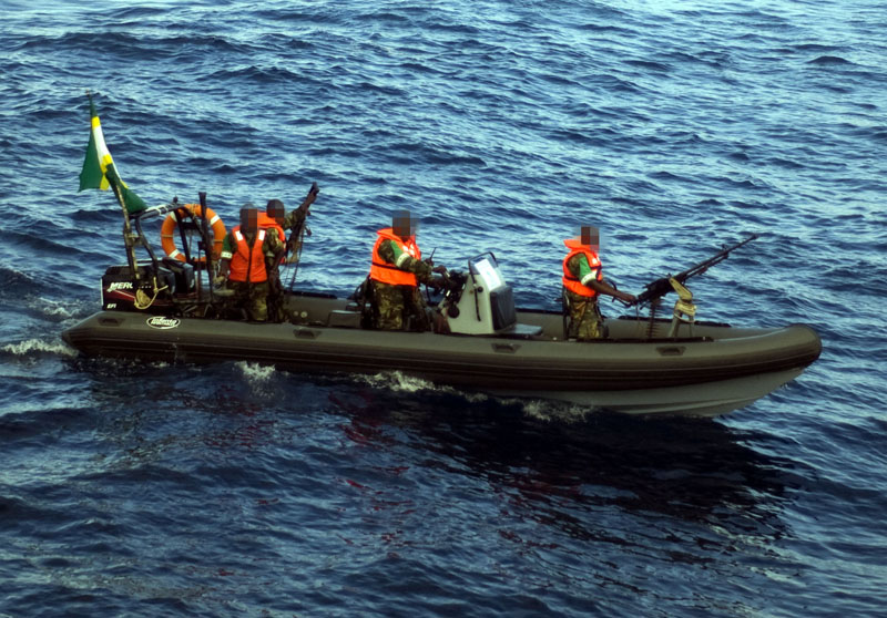 A AMISOM RHIB off the coast of Somalia.